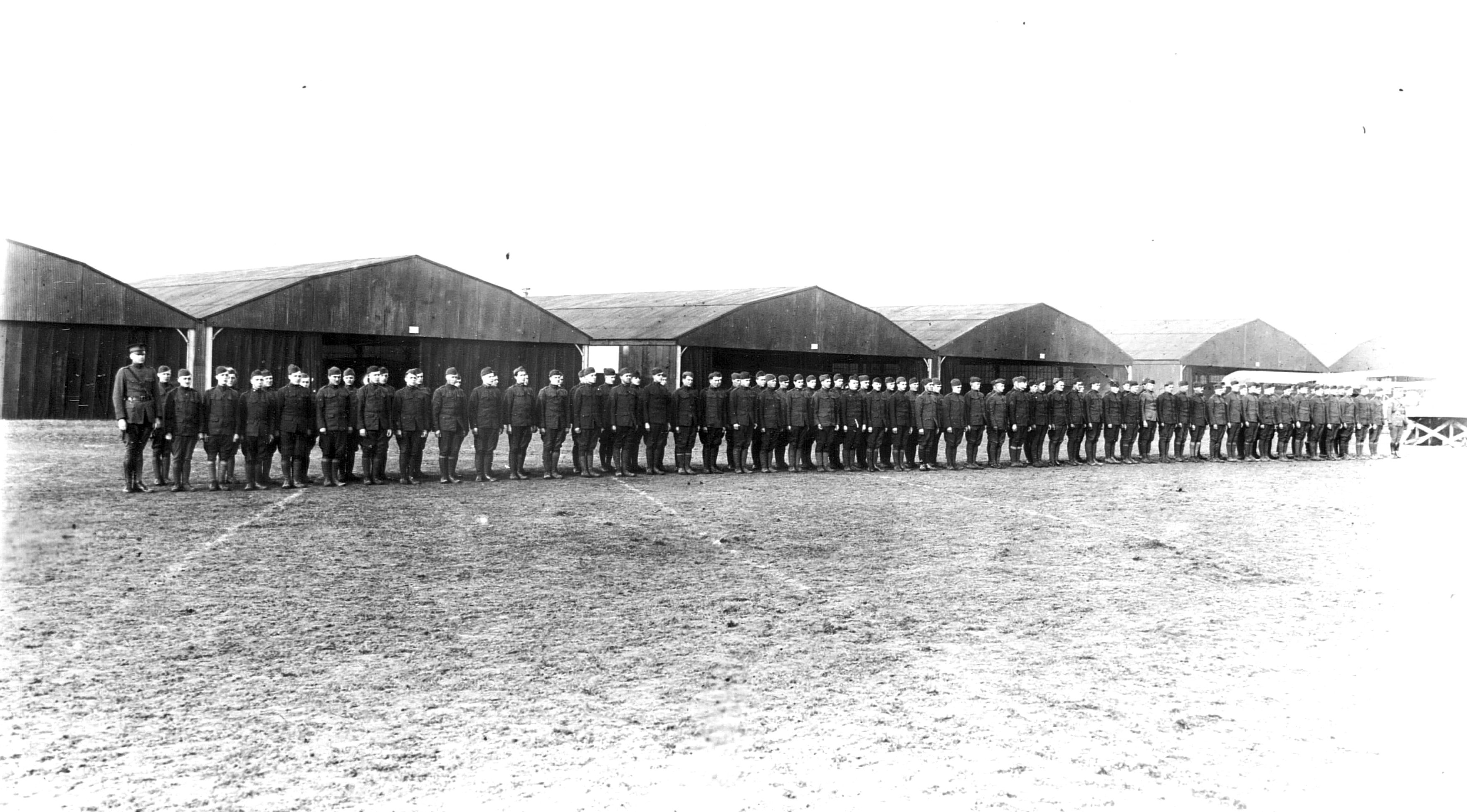 638th Aero Squadron formation, Lay-Saint-Remy Aerodrome, France, November 1919